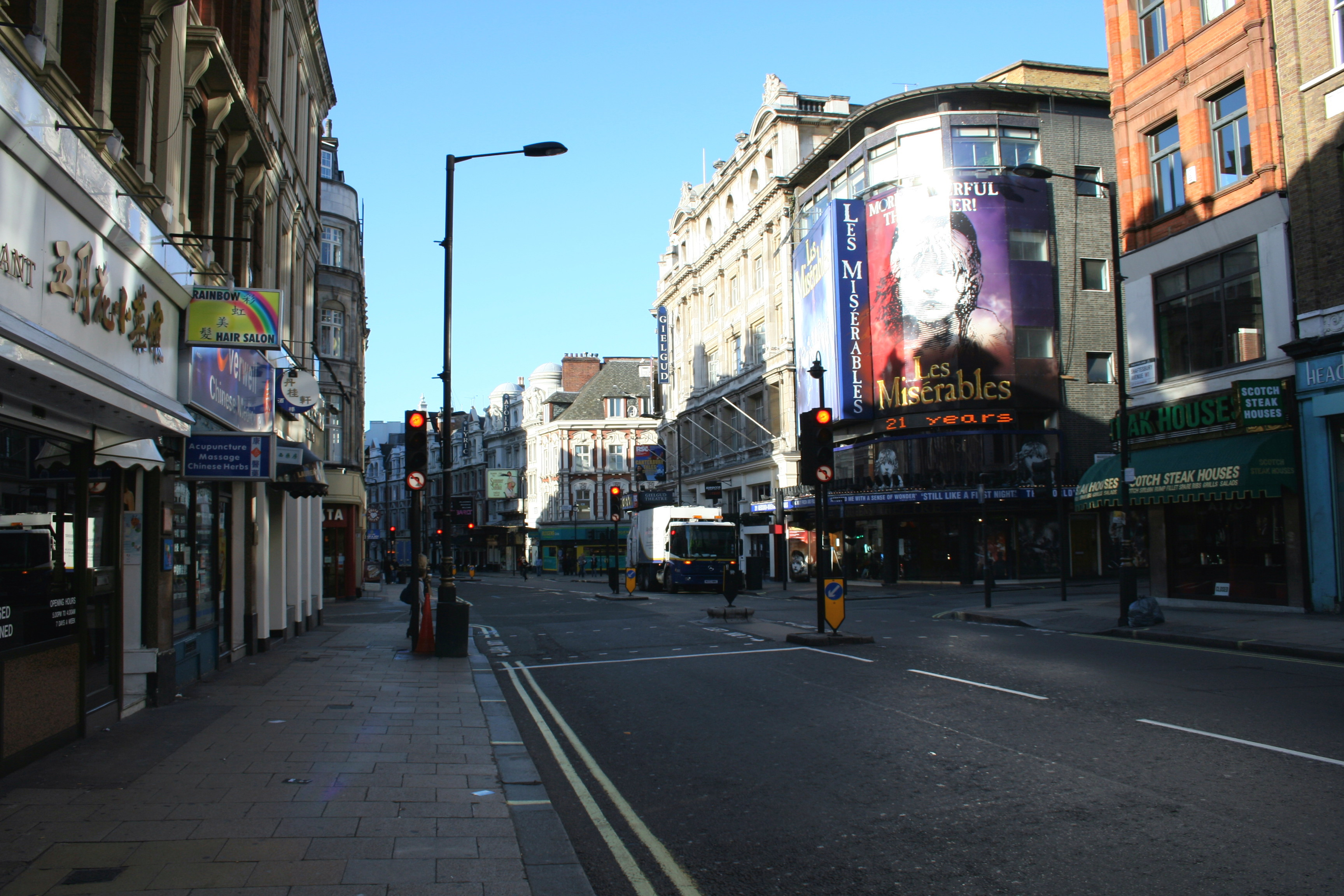 A view of Shaftesbury Avenue in London